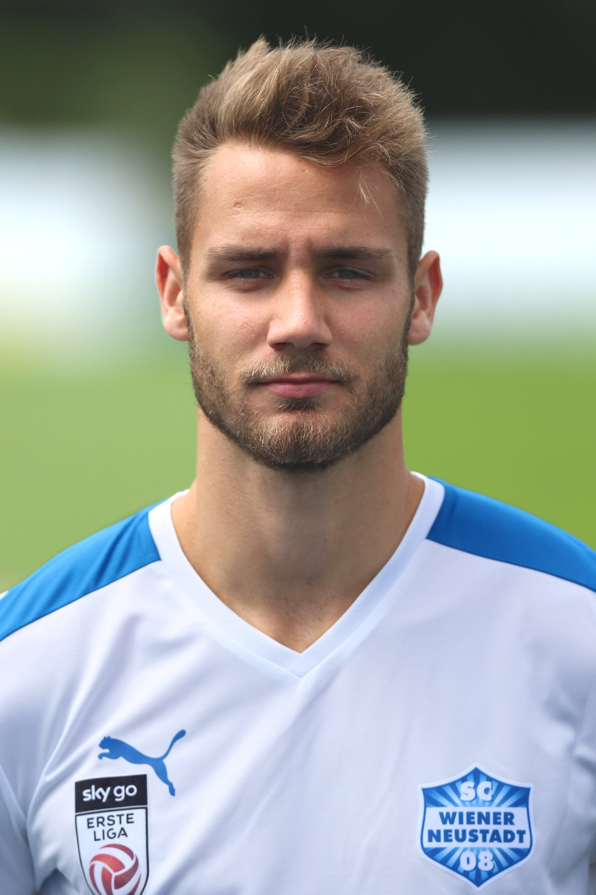 SC Wiener Neustadt squad presentation summer 2017. – The photo shows Daniel Maderner.